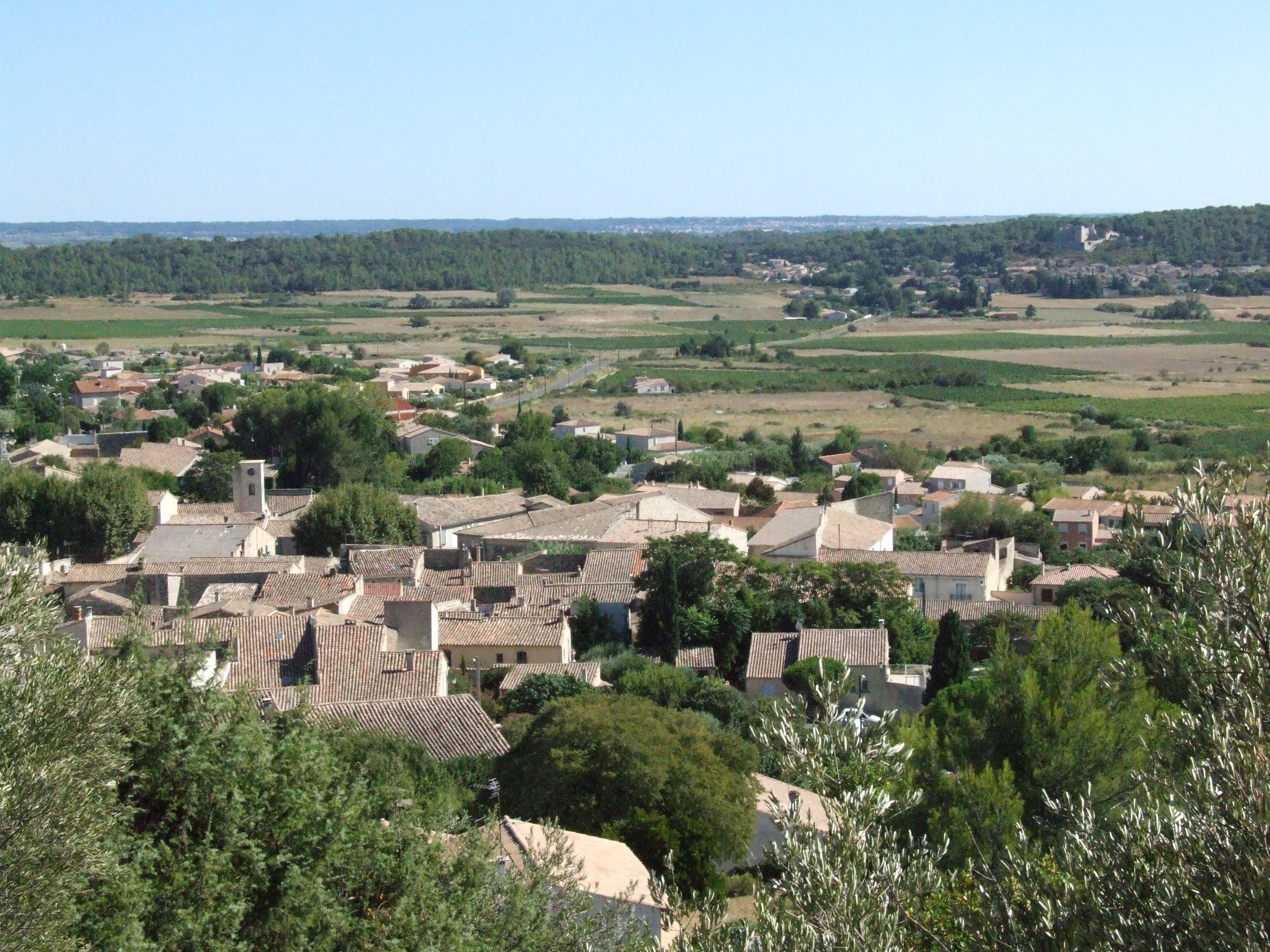 The village ofNages is dominated by the two Gaulish oppidums of Roque de Vif, and of Nages on the Roque de Vif hill to the north. The rooftops of Nages, the valley with Boissière in the distance